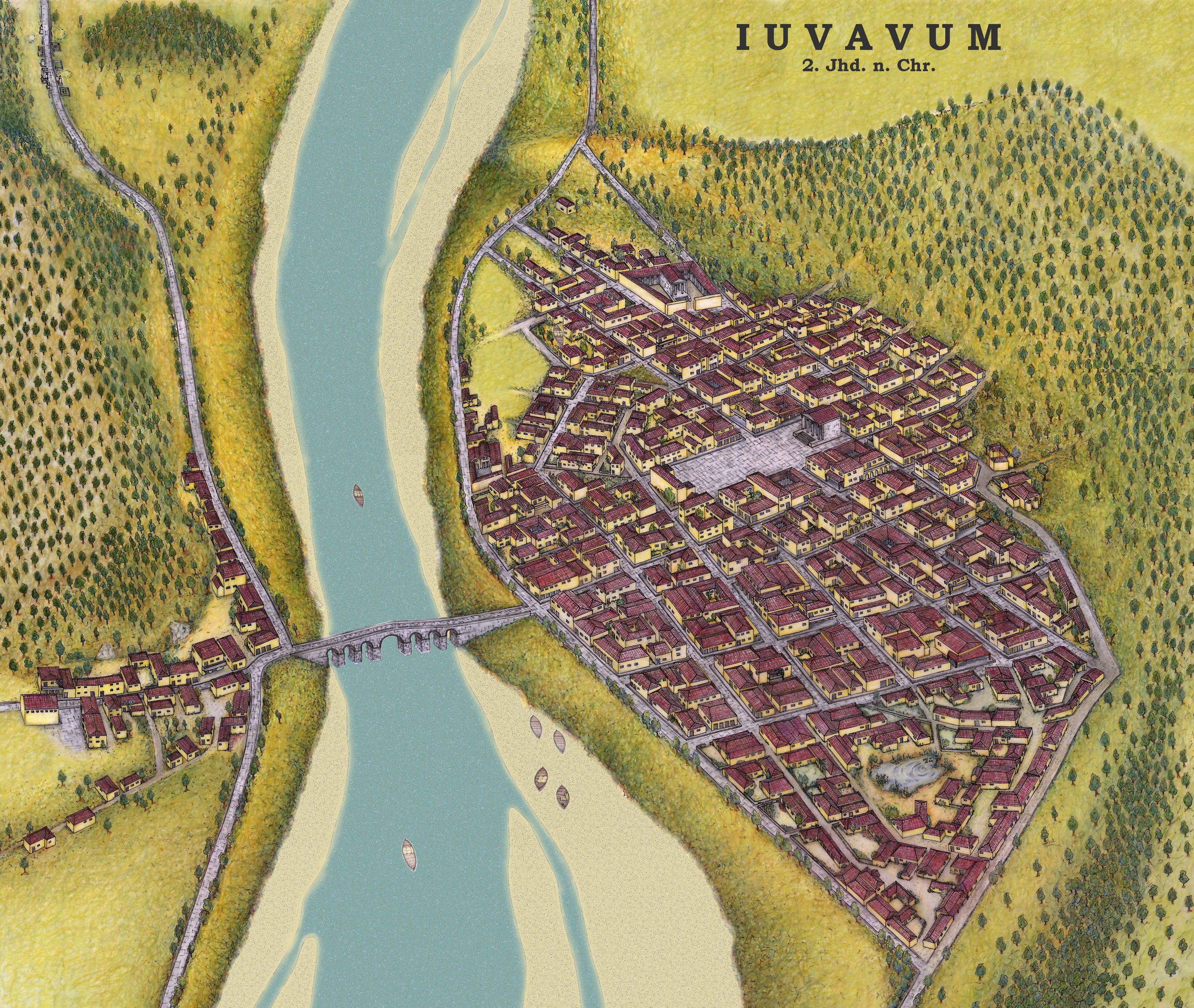 map of the roman city of iuvavum